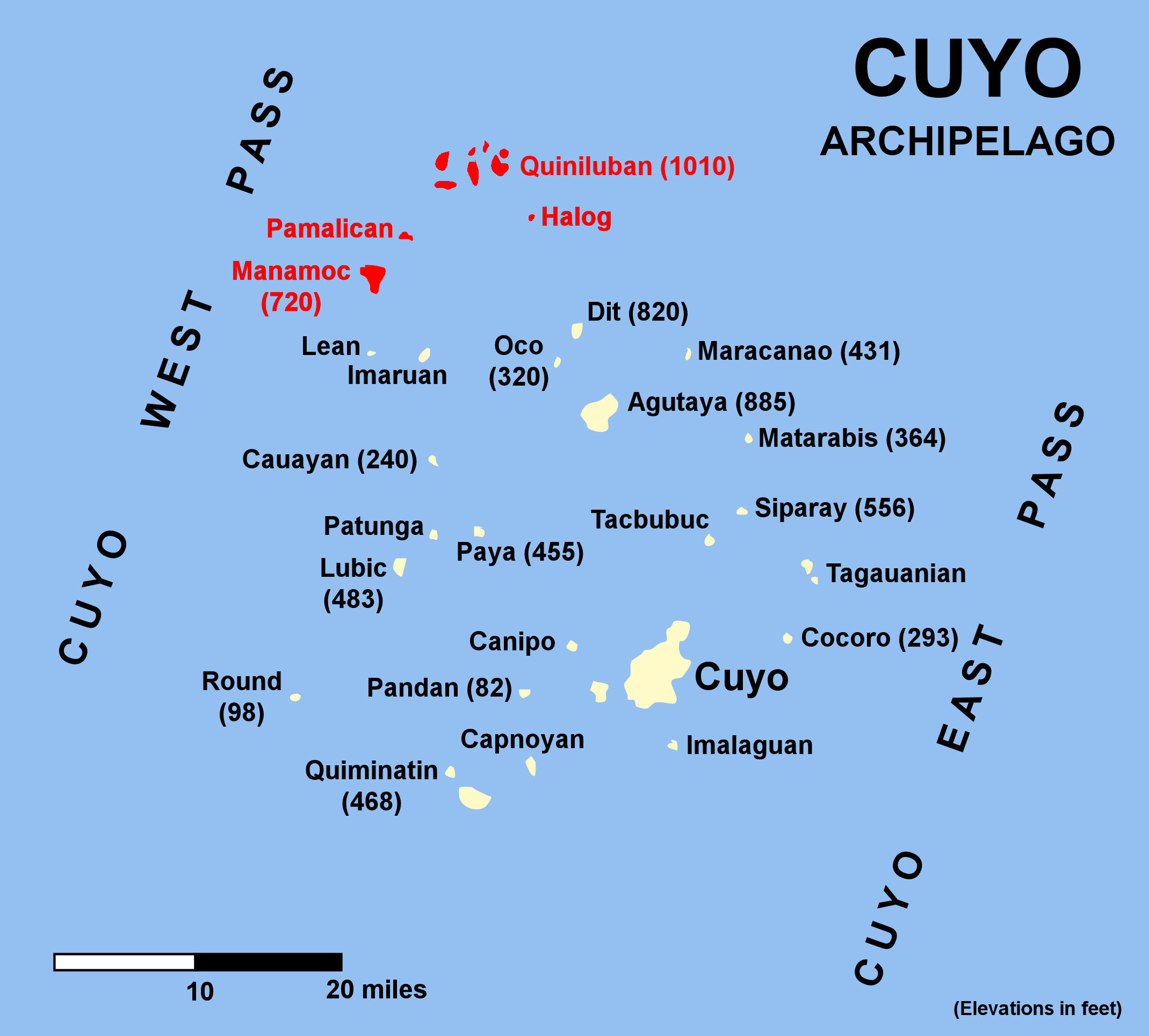 Quiniluban_map